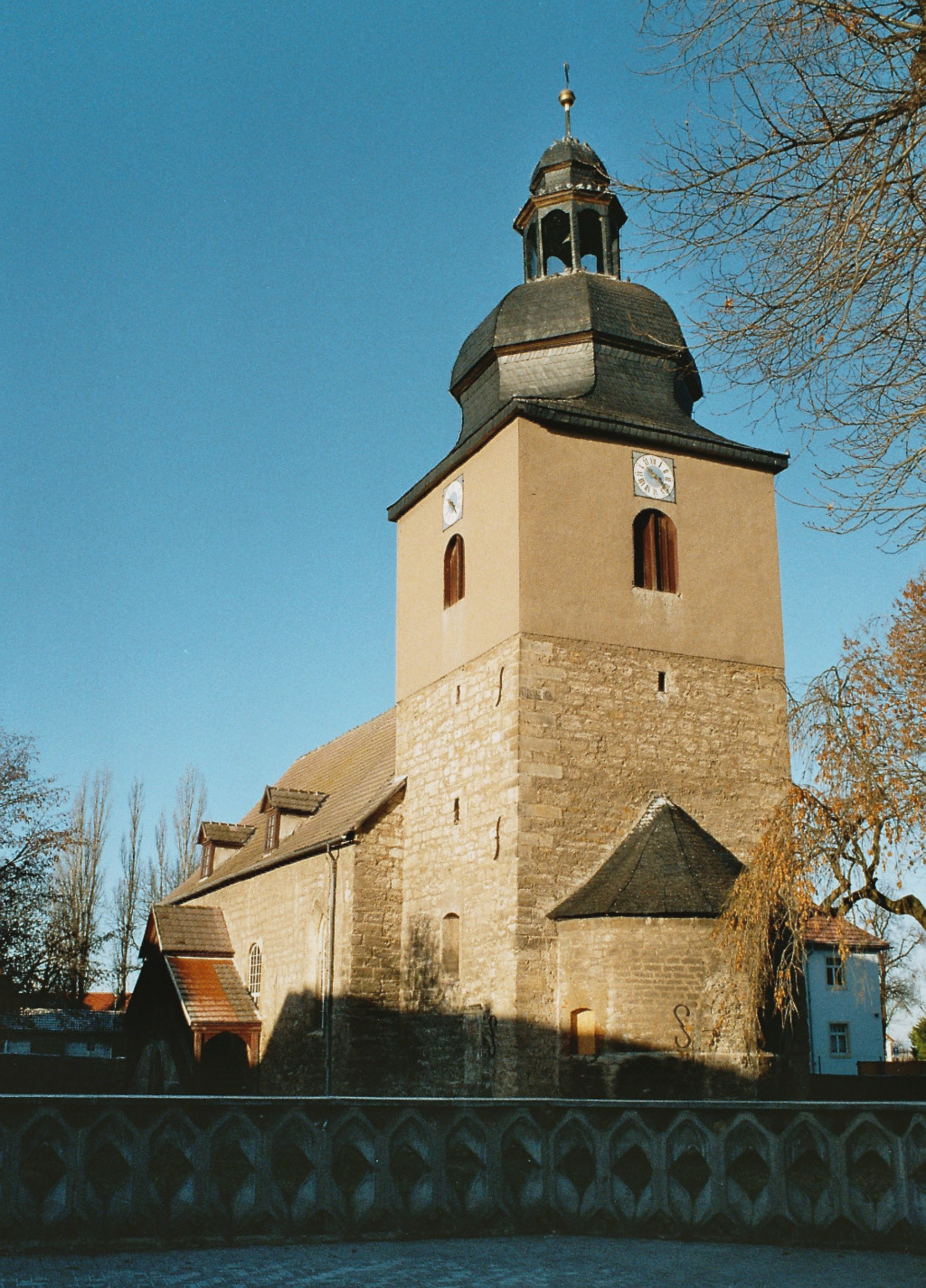 Andisleben(Thuringia, the village church